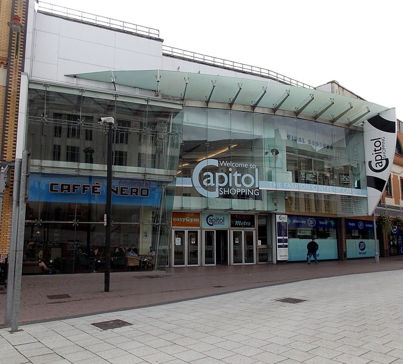 Welcome to Capitol Shopping, Cardiff